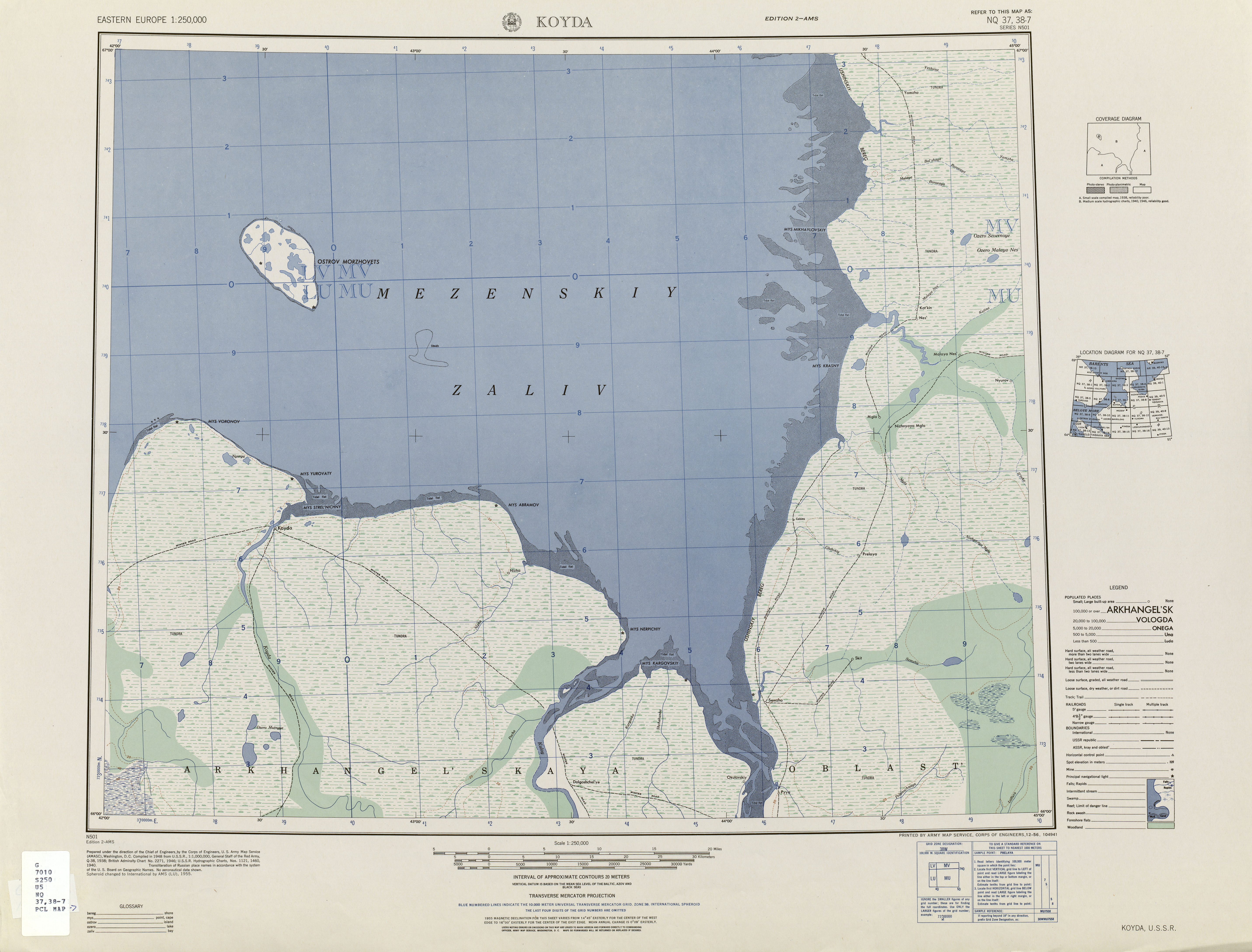 List from Eastern Europe AMS Topographic Maps. Series N501, U.S. Army Map Service, 1954